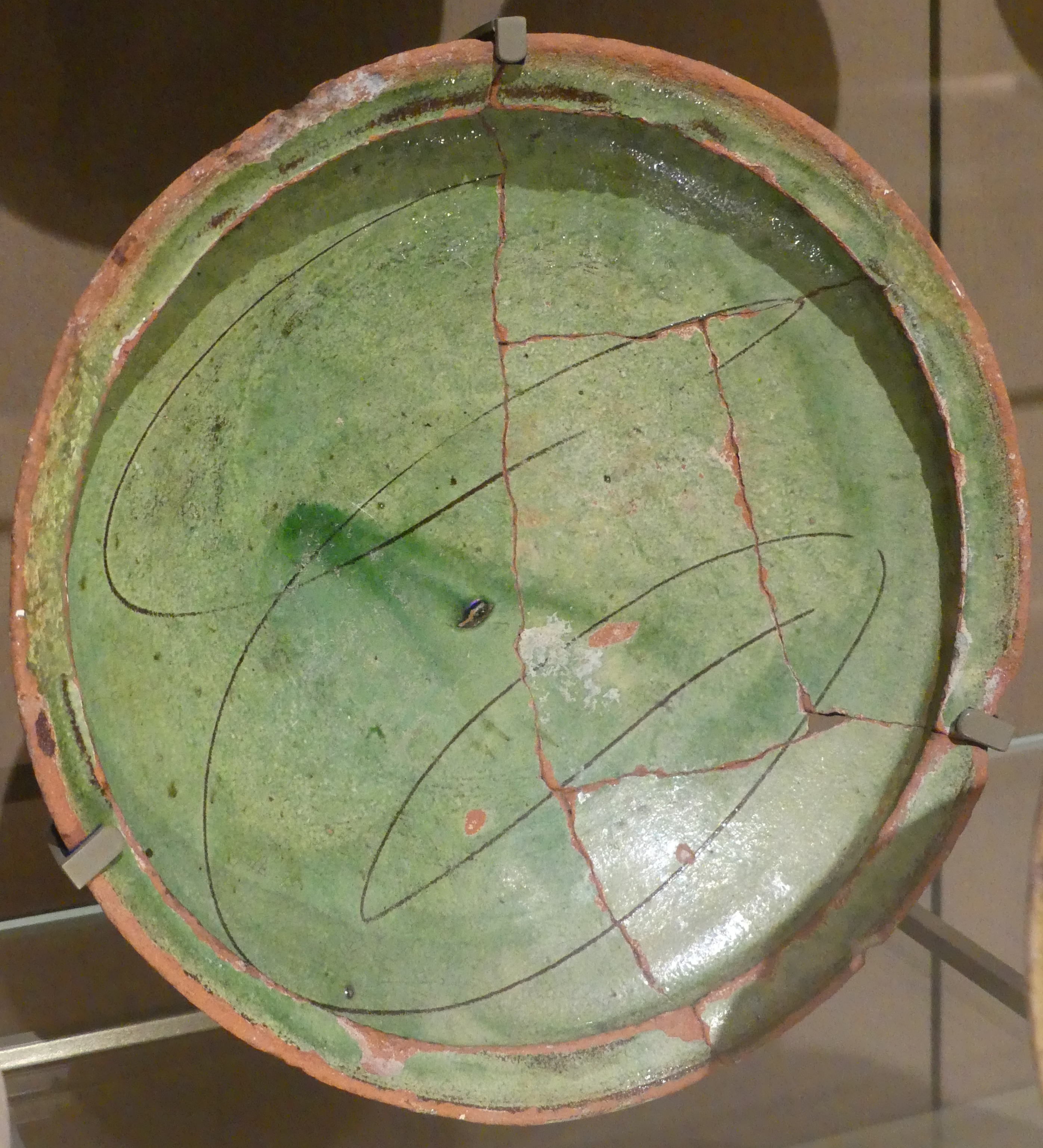 Terracotta cup with glaze from Tyre/Sour, 9th-10th century A.D. (early Muslim period), on display at the National Museum of Beirut, Lebanon